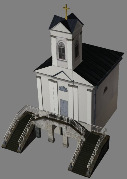 Render modelu Kaplnky